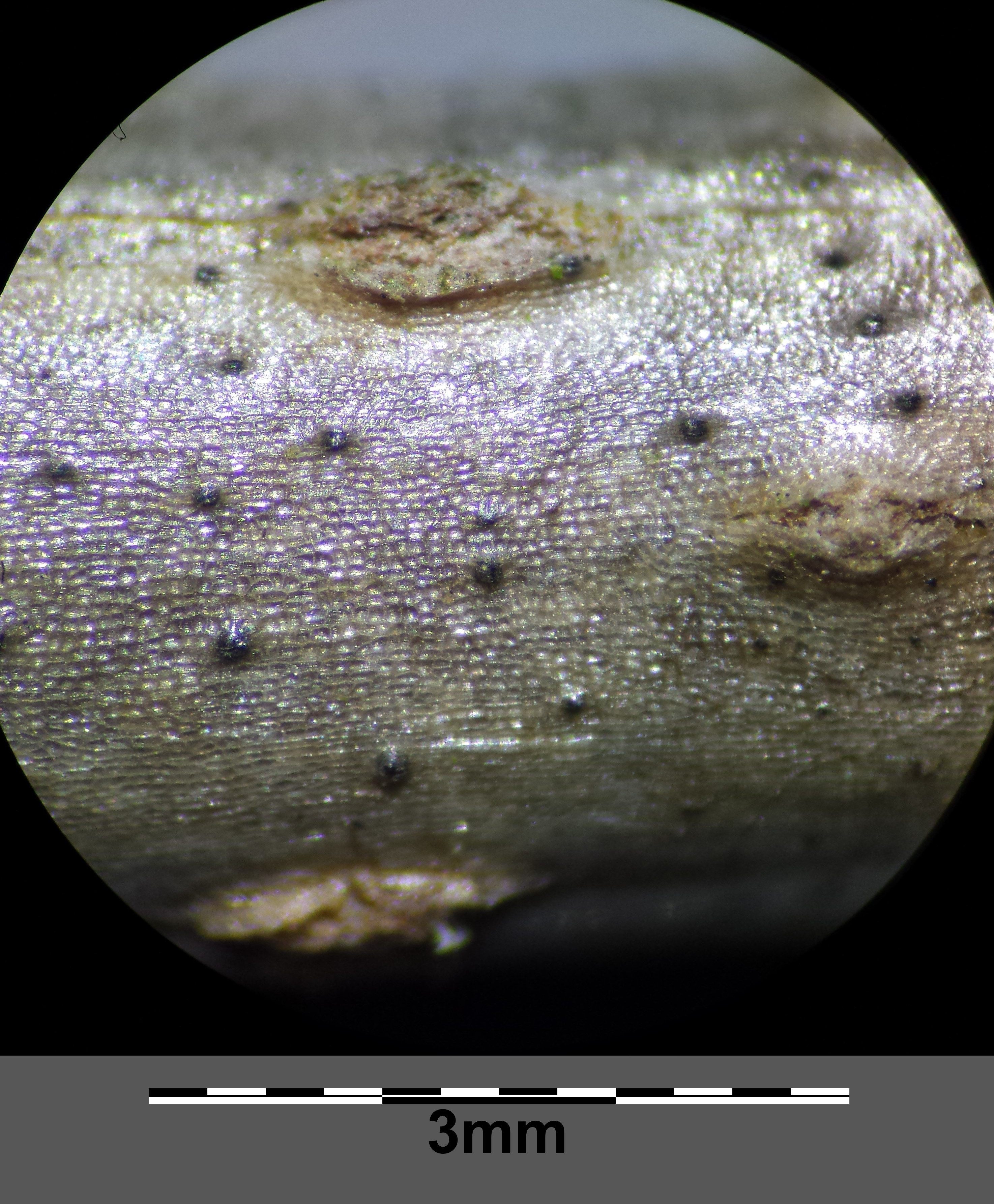 Annual shoot with lenticels Taxonym: Sambucus nigra ss Fischer et al. EfÖLS 2008 ISBN 978-3-85474-187-9 Location: Rohrwald, district Korneuburg, Lower Austria - ca. 240 m a.s.l. Habitat: Carpinion betuli